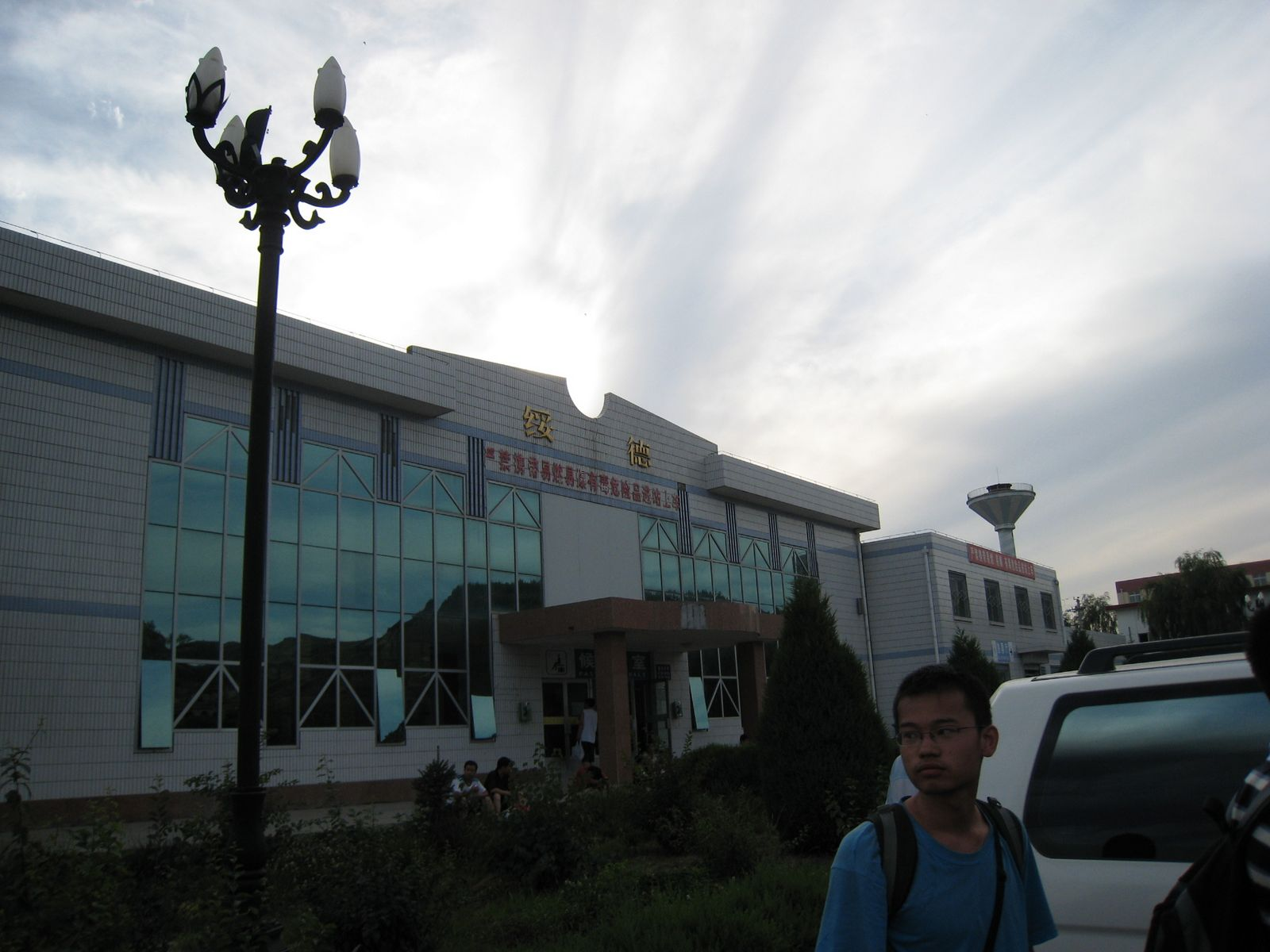 Suide Railway Station (Yulin, Shaanxi)